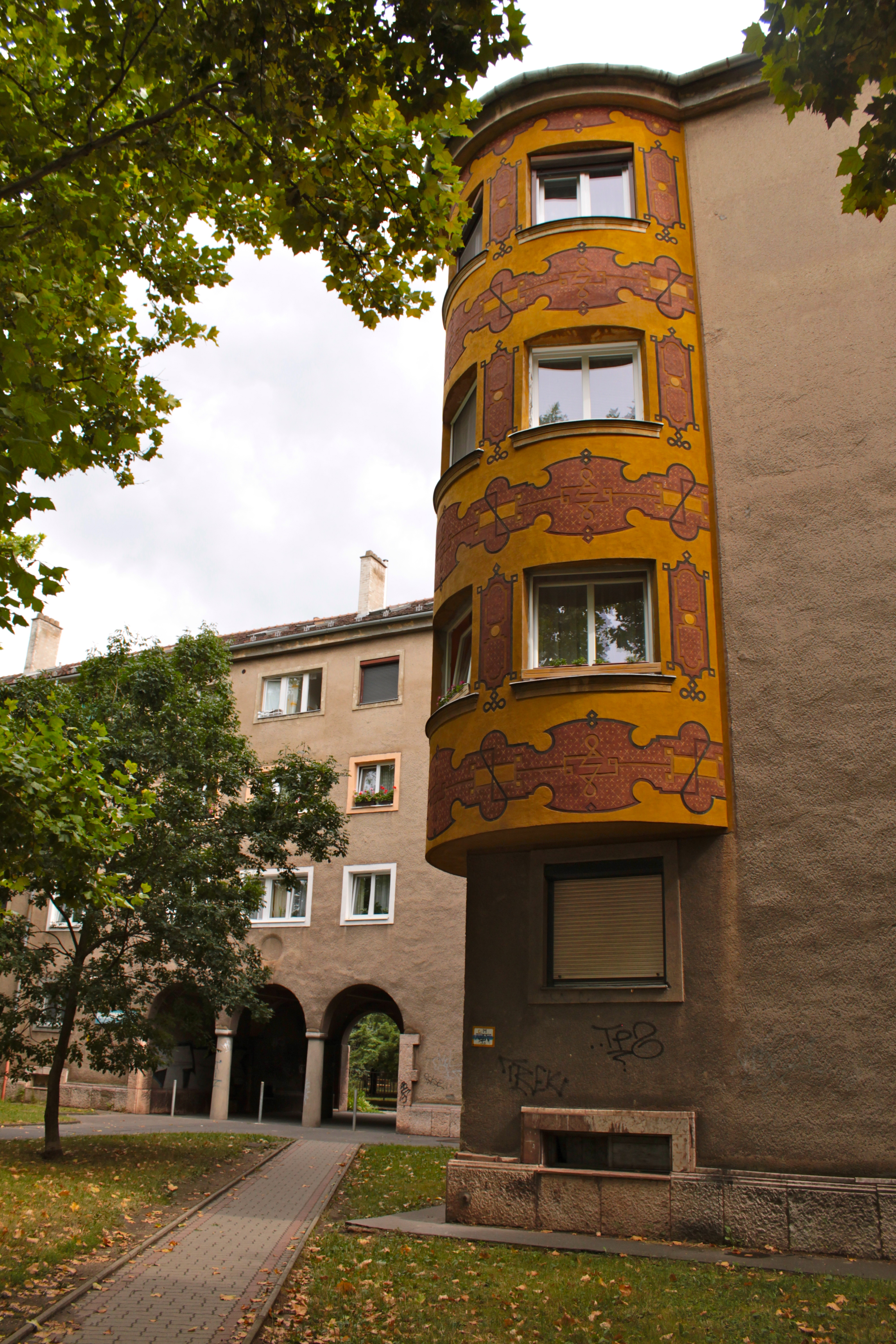 Socialist realist building with sgrafitto